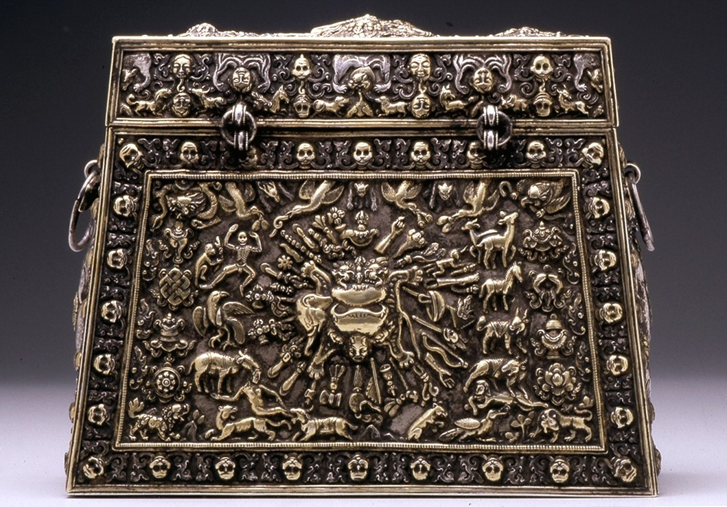 The surfaces of this silver and gilt box are richly embellished with symbols and mantras associated with the destruction of malevolent spirits. On the front is a symbolic representation of the protective female deity Lhamo. The precise function of the box within a ritual context is unknown, but it may have served as a storage container for other esoteric objects used within a tantric ritual. The inclusion of skulls as border motifs and the manacled creatures at either end are suggestive of both protection of the contents and the use of the box in purifying rites or exorcisms. The inscriptions include spells using Sanskrit words and Tibetan curses, such as, "May its voice sink in darkness and dissolve." Part of the ritual seems to have involved capturing the spirit, and part, subduing it. There may also be references to yogic activities, such as controlled-breathing exercises. The complexity of the decoration is indicative of a date in the 18th century, making this a relatively late example of the Tibetan tantric tradition.